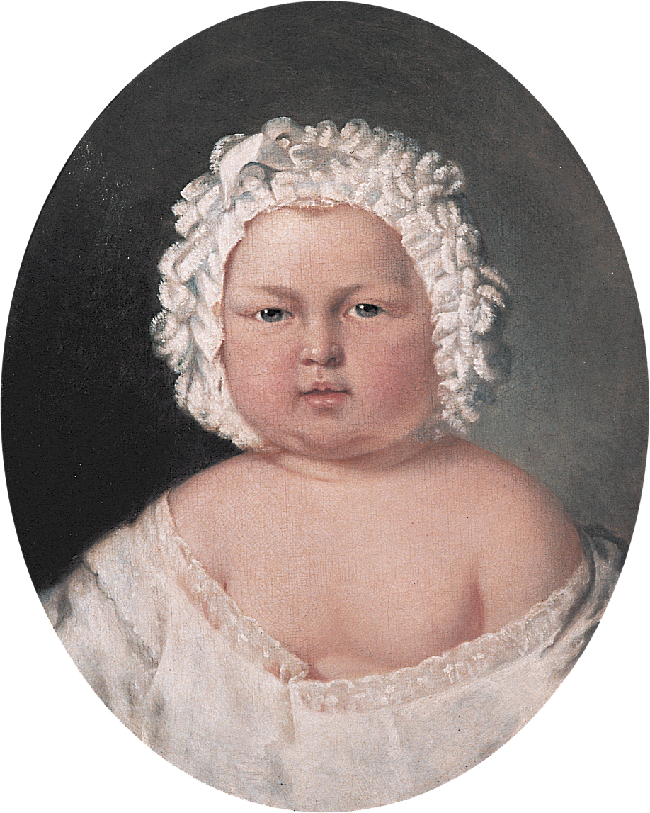 Willem Alexander Paul Frederik Lodewijk Nassau van Oranje as a child oil on canvas 39,3 x 31,5 cm circa 1817